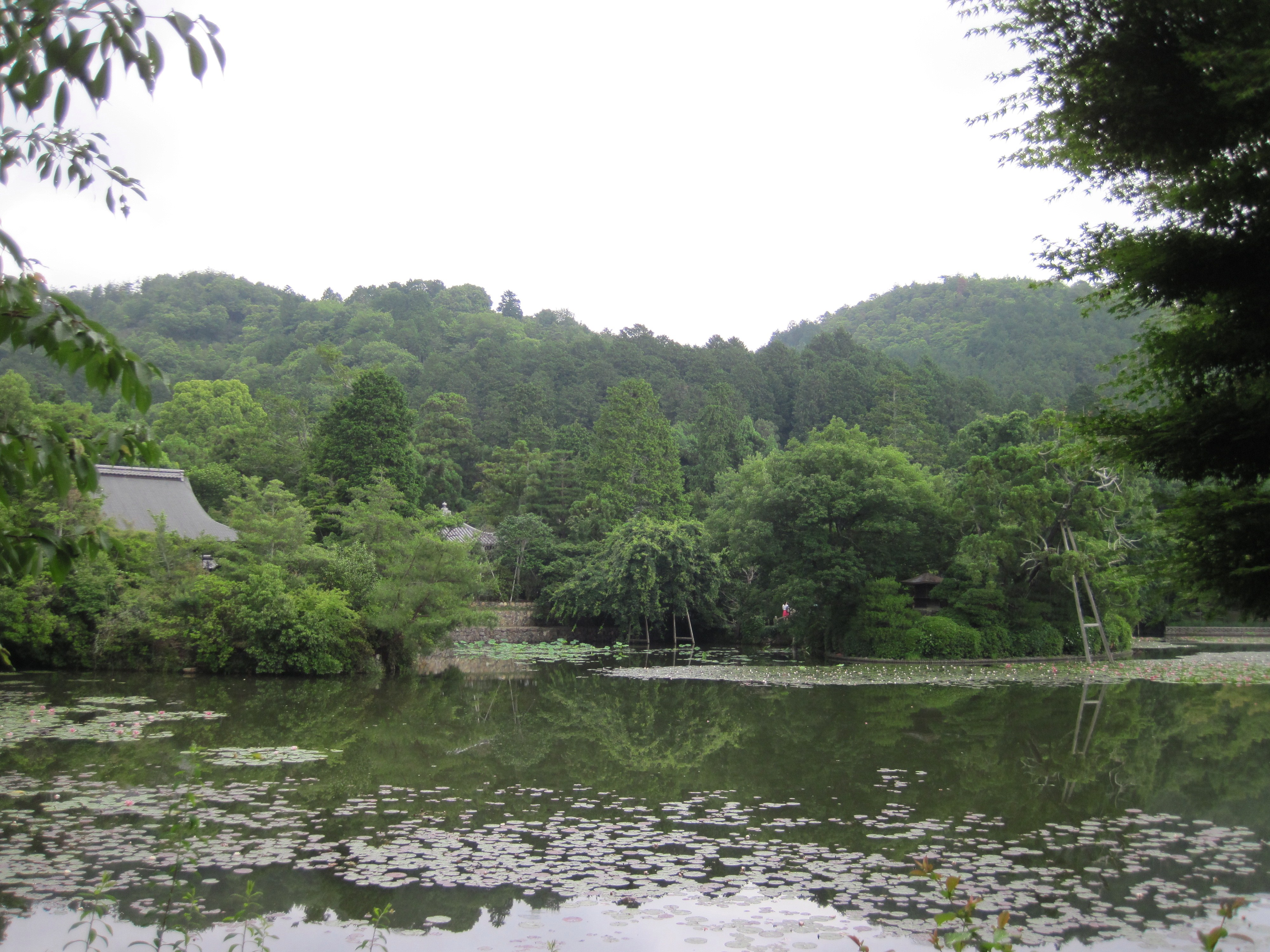 Ryoan-ji National Treasure World heritage Kyoto 国宝・世界遺産 龍安寺 京都